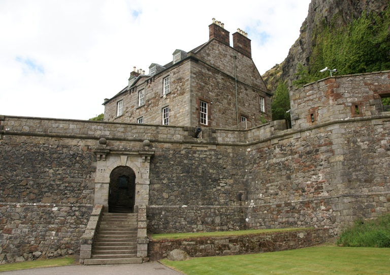 Dumbarton Castle, West Dunbartonshire, Scotland - south entrance